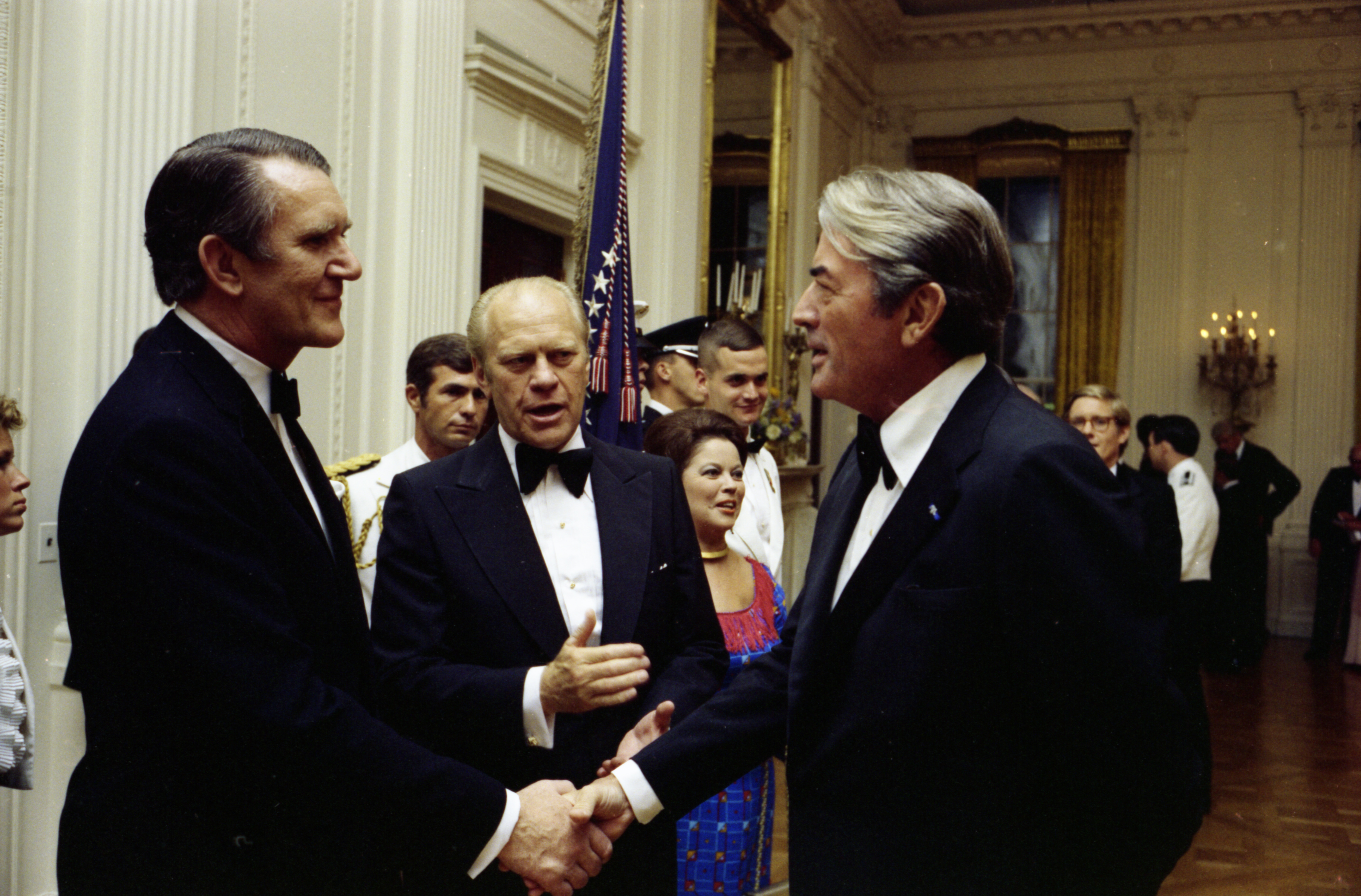 Malcolm Fraser, Prime Minister of Australia, being introduced to actor Gregory Peck by President Gerald Ford, at a state dinner given in Fraser's honour at the White House